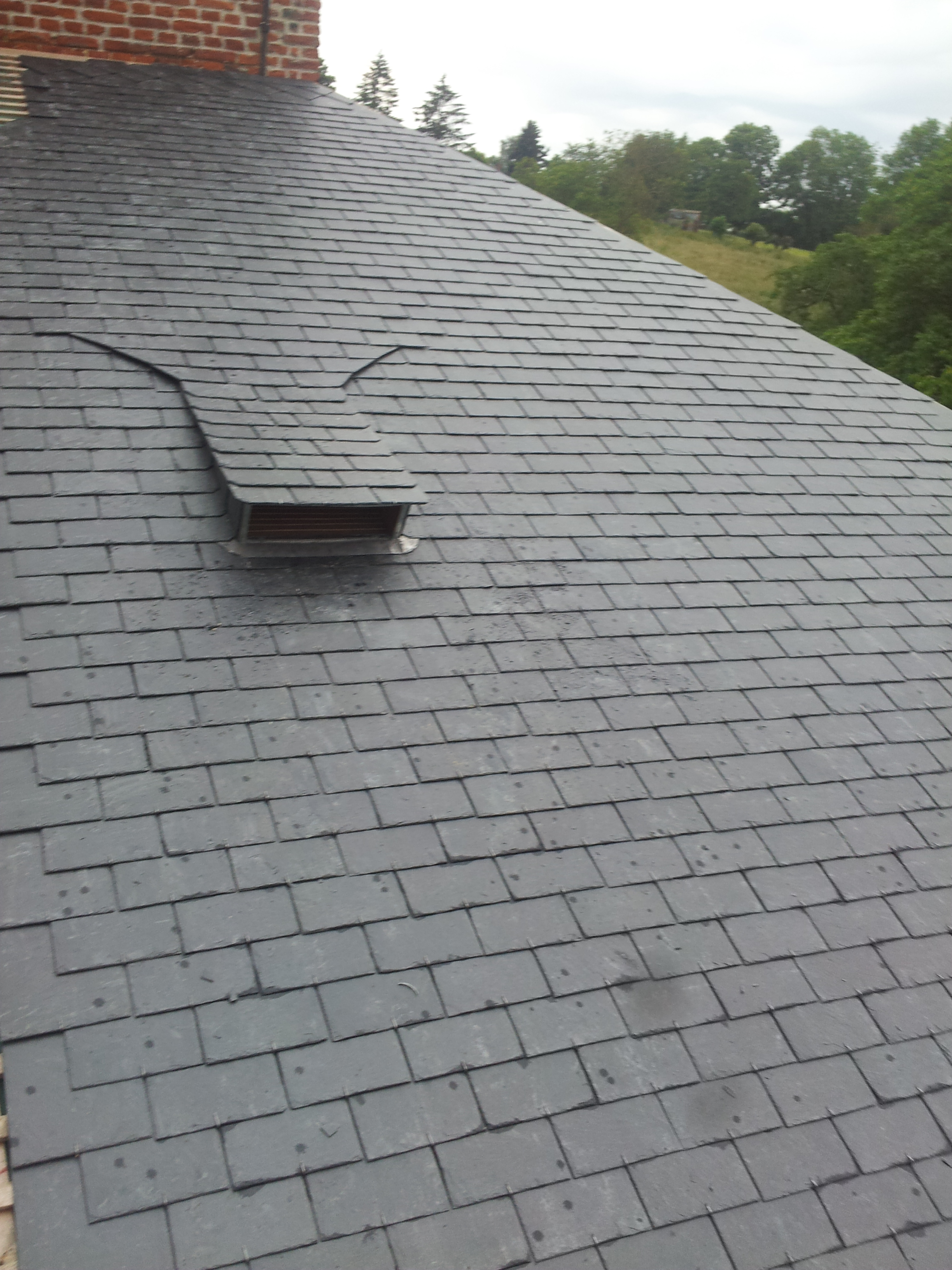 Entrance specially designed to allow access for bats to a space where they can roost. This picture was taken on the roofs of the offices of CPIE Bocage de l'Avesnois, 6 rue Millet à Bellignies (France)